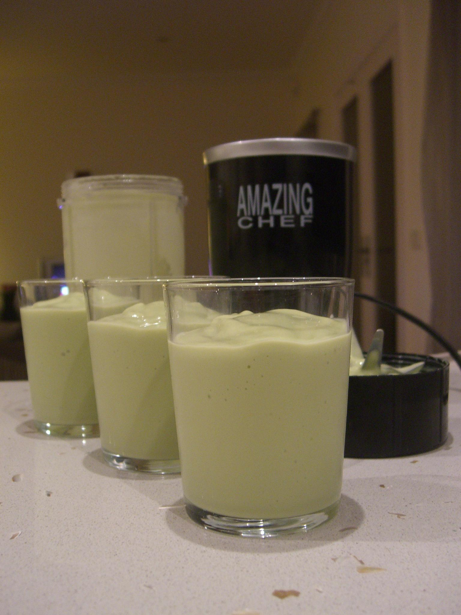 Amazing Chef food processor unboxing Rayson found this on sale online for only AUD1 + AUD14.95 shipping. Bargain! We'll see if it is any good. Amazhing Chef food processor - Global Shop Direct Update 2008.05.14: We tried it last night with avocado smoothies and chopping up some garlic and preserved lemon to make a fish marinade and it passed quite happily. The results was a slightly chunky marinade, probably because there wasn't enough to fill the blades, confirming my theory that good blenders have conical bottoms to cause the contents to collect close to the blade. The Amazing Chef performed quite well with the cauliflower puree that filled the capsule to three quarters full. We even had a few cubes of ice in the avocado smoothie and it managed to crush it all, no choking or sputtering. :) The cups/capsules are polycarbonte, I think. Microwave and dishwasher safe. A quick rinse sorted them out mostly. The screw on blades is a bit annoying though. It takes more effort than most click-on blender lids. And the sillicone seals are a bit finicky to position. Not sure how the after sales support is for things like seals etc. My mum always raves about her Prestige pressure cooker that is 35yo and she can still find seals for it! Photos: - Amazing Chef - in the box - Amazing Chef - unboxed - Blending garlic, preserved lemon, leek - Blended garlic, preserved lemon, leek marinade - Cauliflower puree - Avocado, milk, condensed milk and ice smoothies